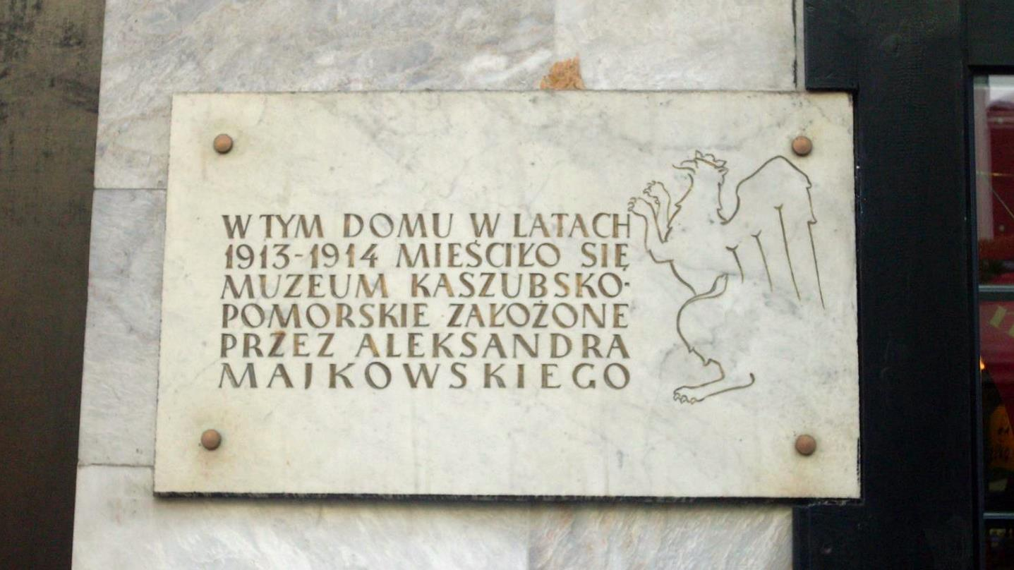 Plaque commemorating former Kashubian-Pomeranian Museum founded by Aleksander Majkowski. The museum existed in years 1913-1914 at Bohaterów Monte Cassino 28 Street in Sopot.